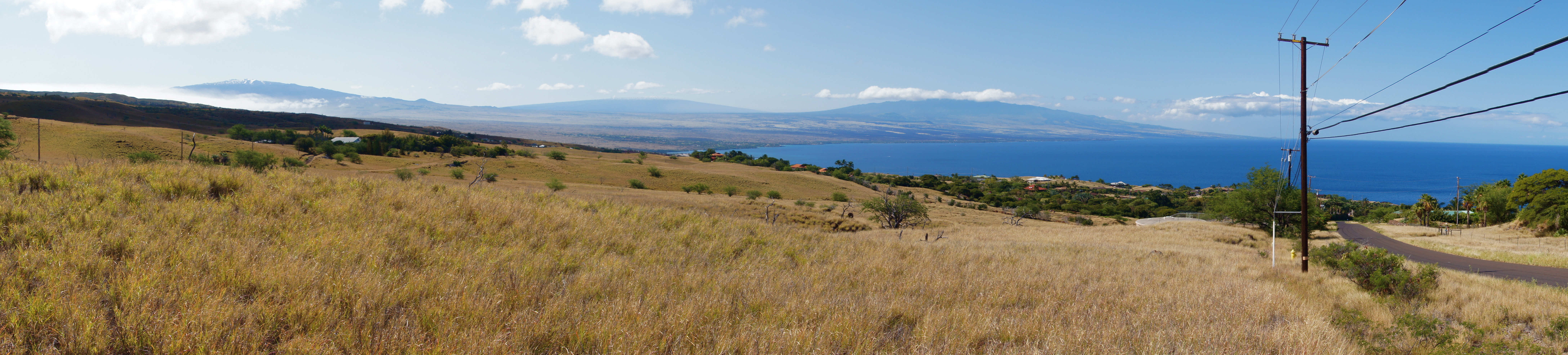 A view of the Kohala Coast and Mauna Kea, Mauna Loa, and Hualalai from the slopes of Kohala Mountains near Kawaihae.